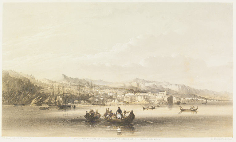 View of Trebizond from the sea by Sir Oswald Walters Brierly in 1856